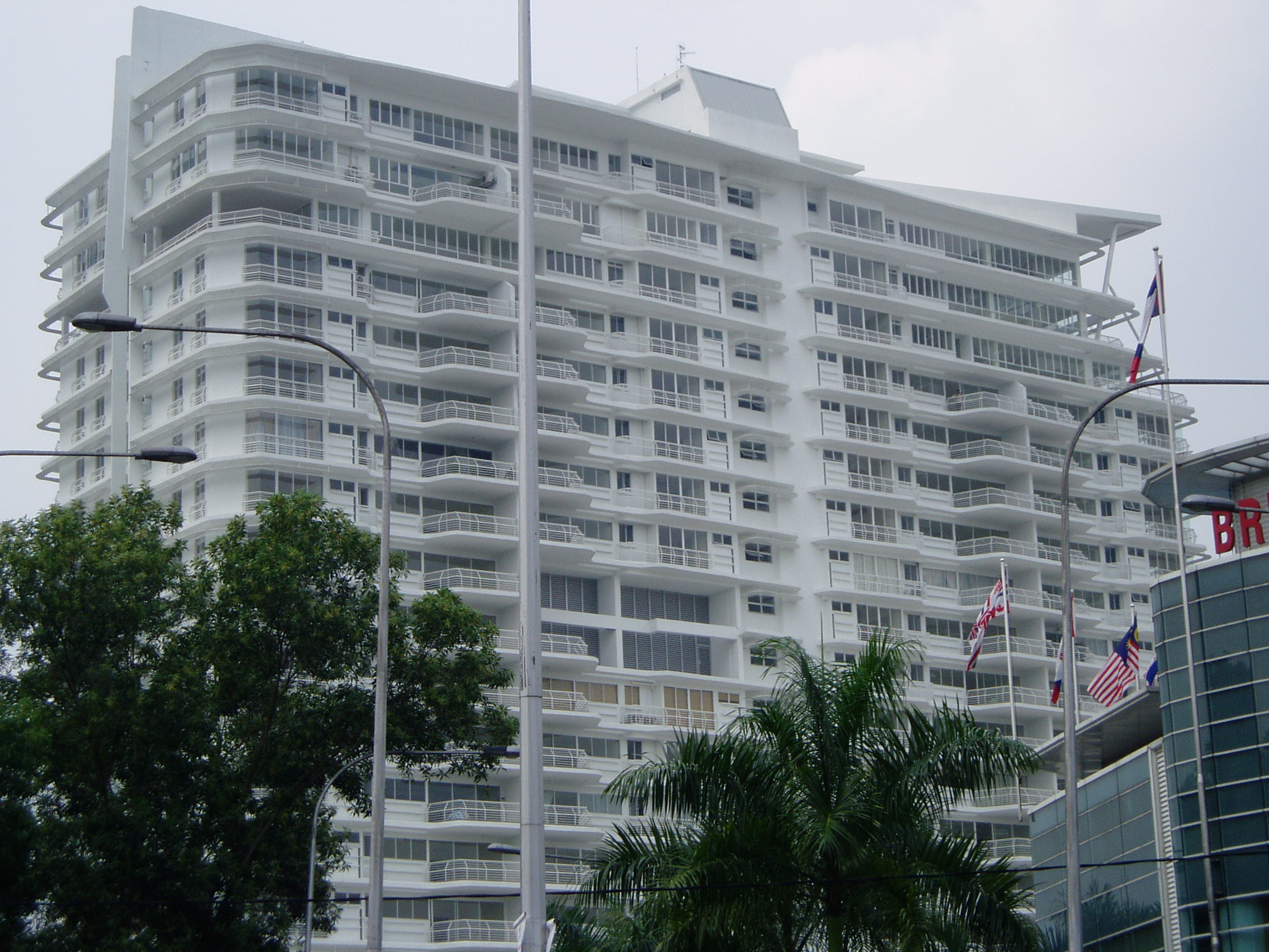 A view of TTDI Plaza & The Residences